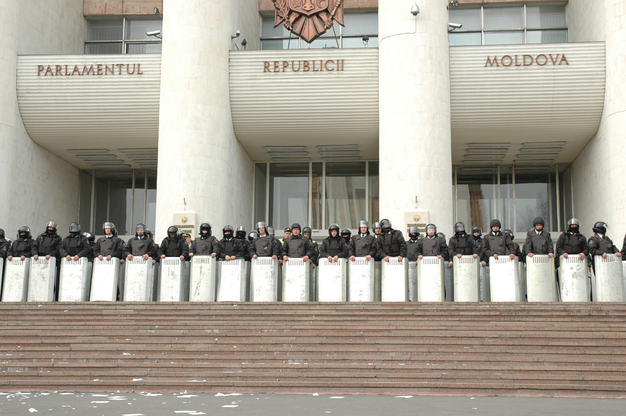 Protest riot in Chisinau after the 2009 parliamentary elections